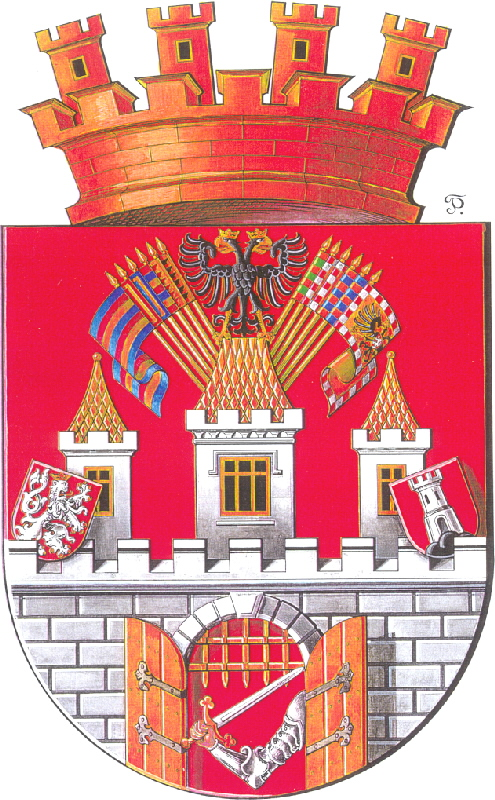 Praha 5 Coat of Arm.